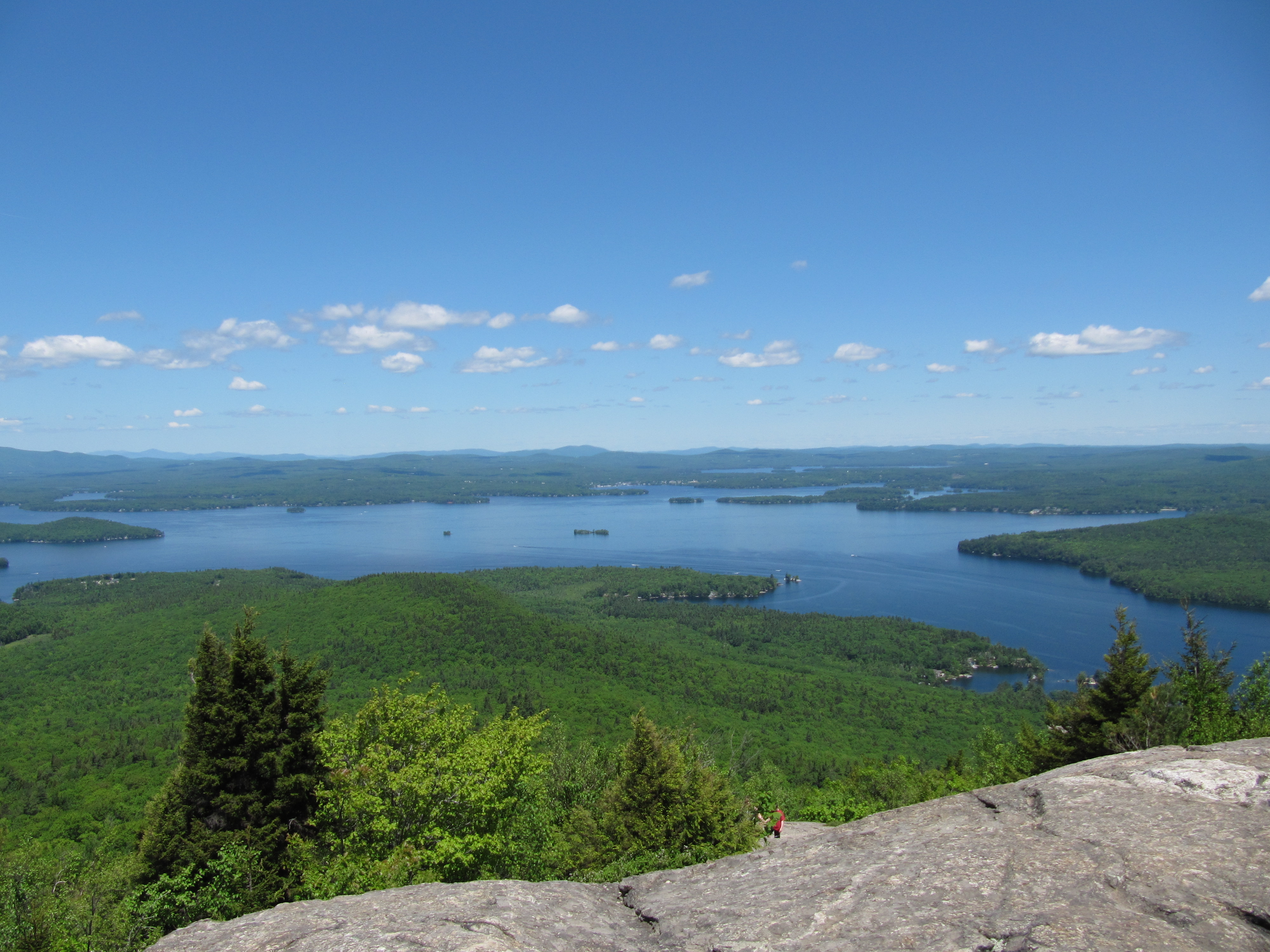 Mount Major Trail in city Alton, New Hampshire.